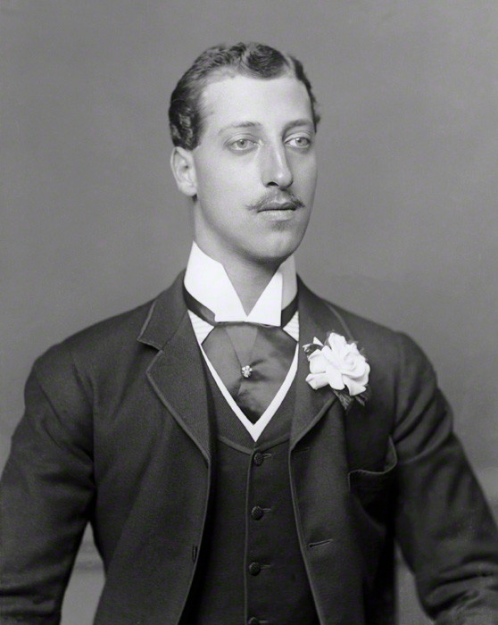 Portrait of Prince Albert Victor of Wales